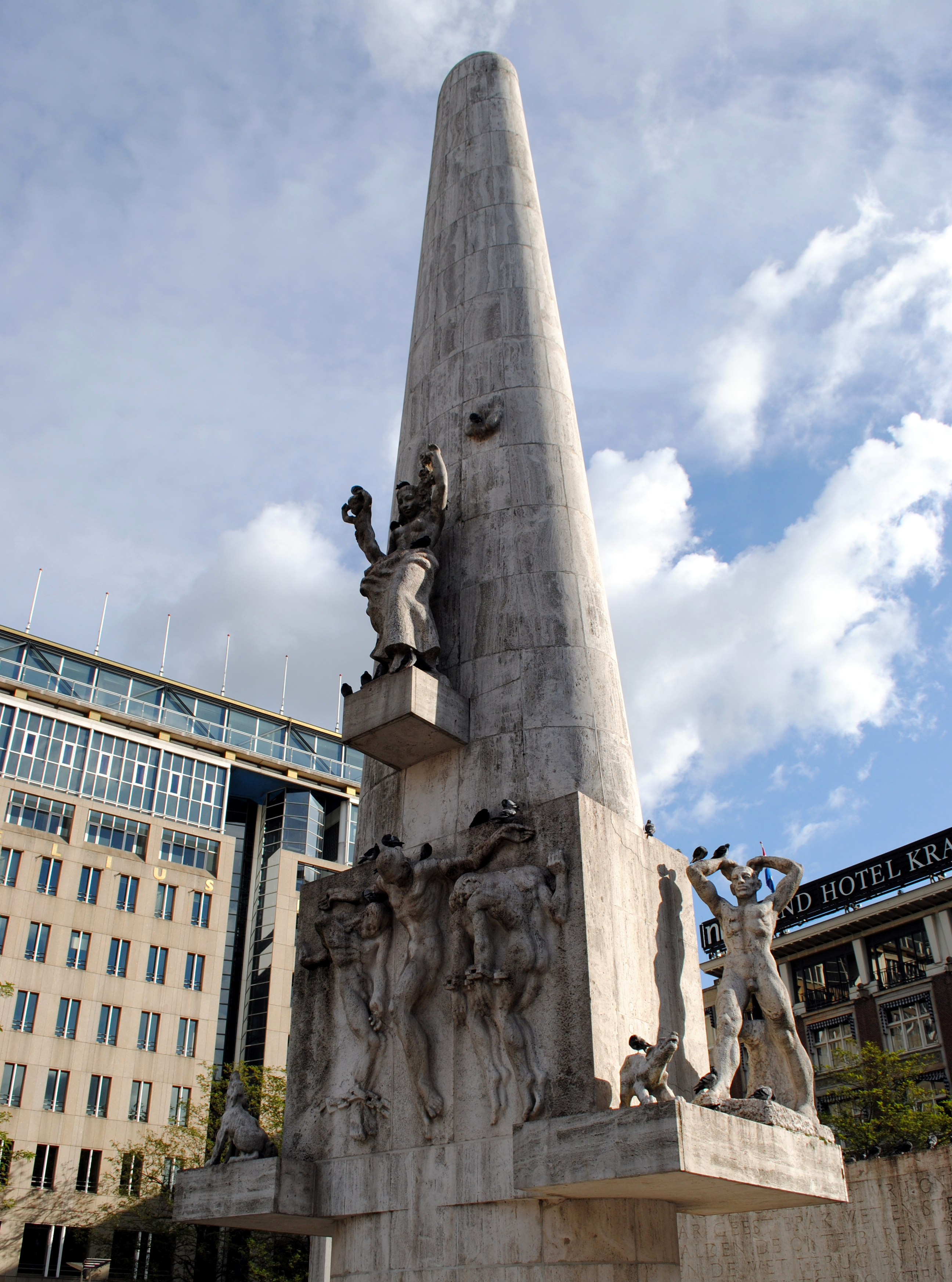 Dam Square National Monument in October 2009.